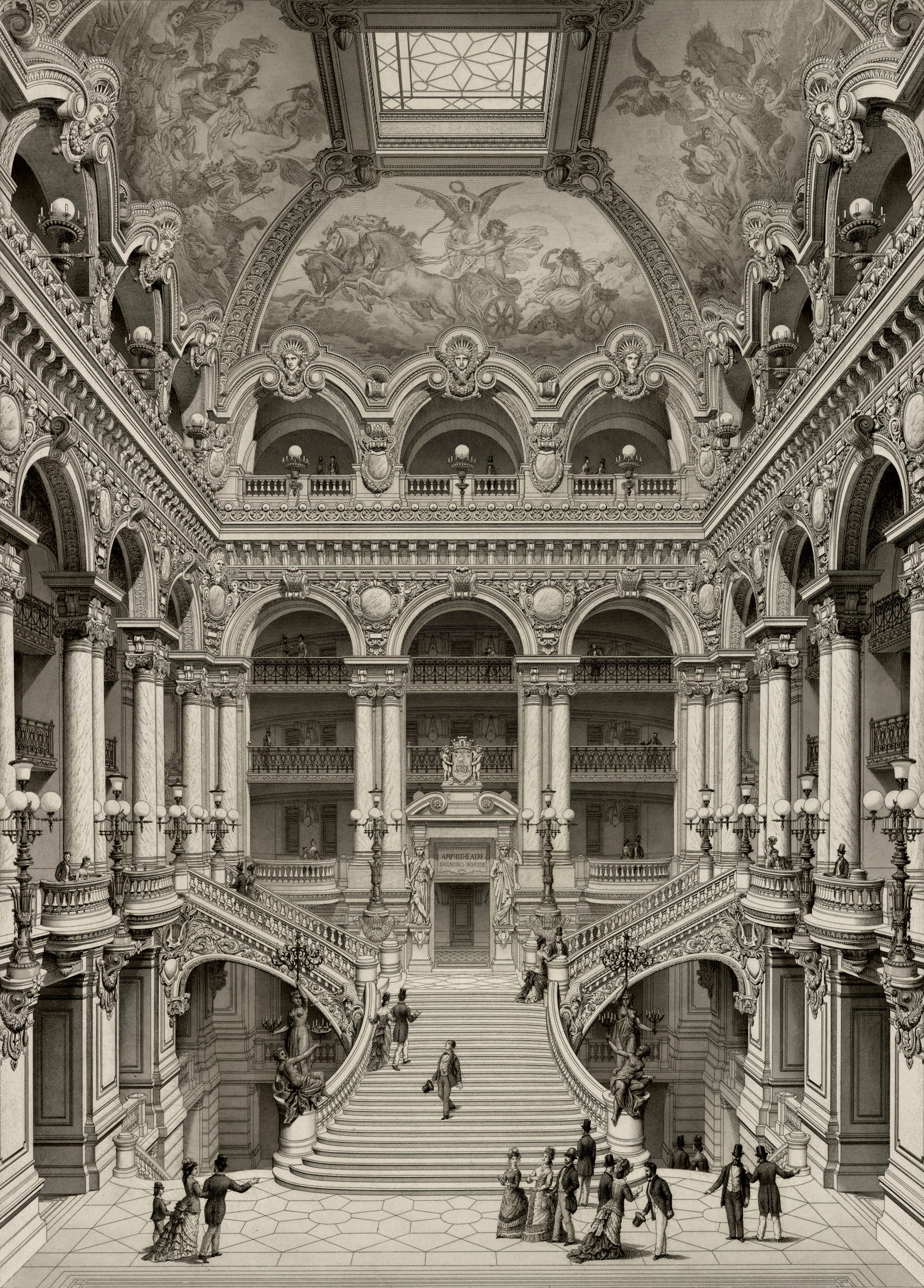 Palais Garnier Grand escalier d'honneur : Perspective view